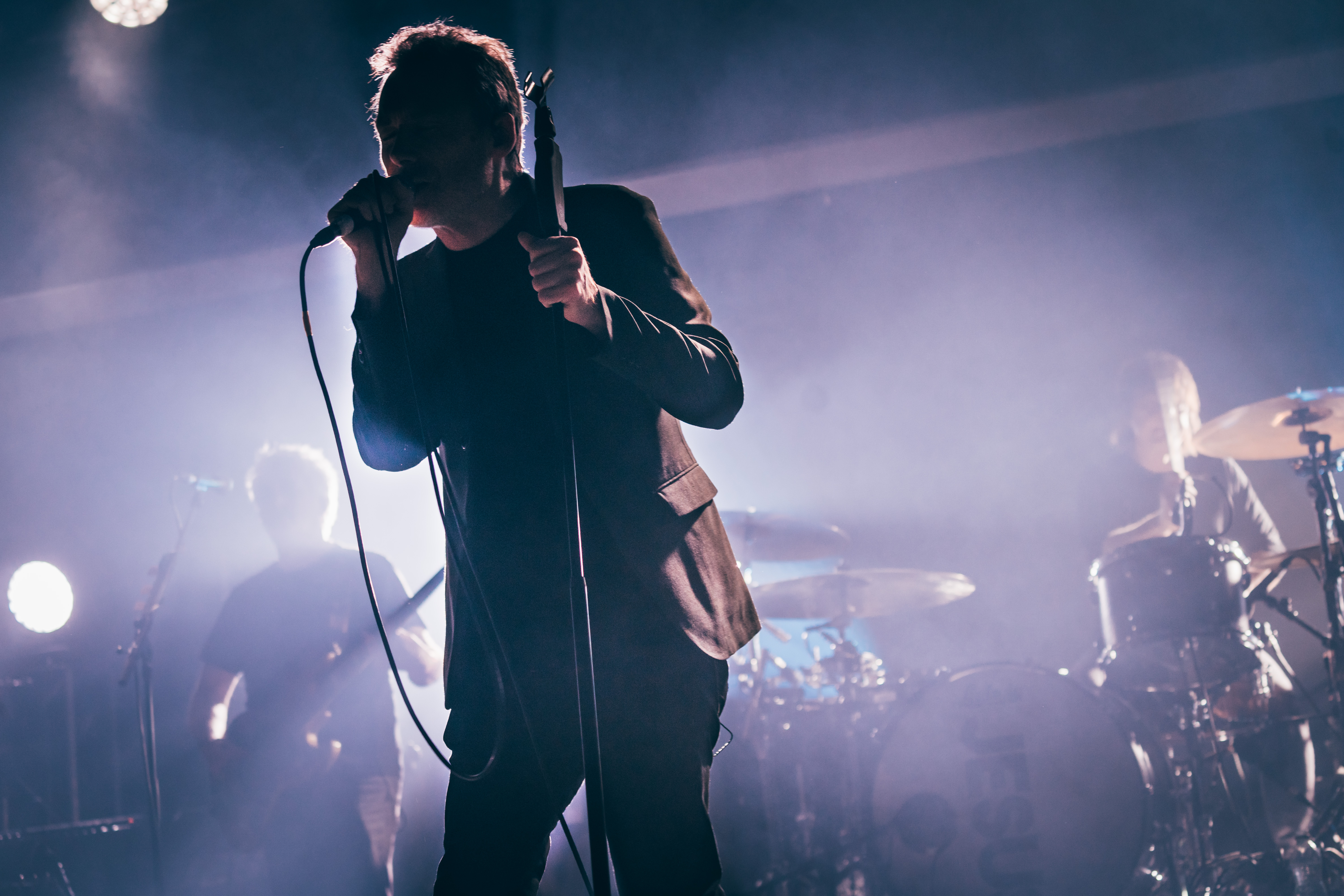 The Jesus and Mary Chain